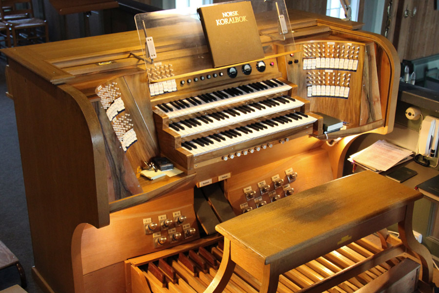 Organ console in Odda church